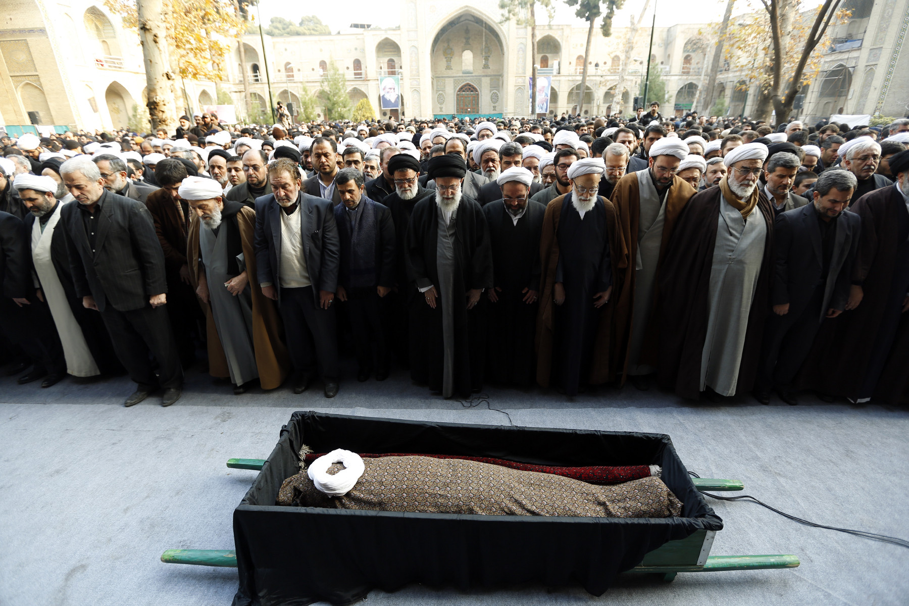 Ayatollah Ali Khamenei Praying for Ayatollah Mojtaba Tehrani's Body 01